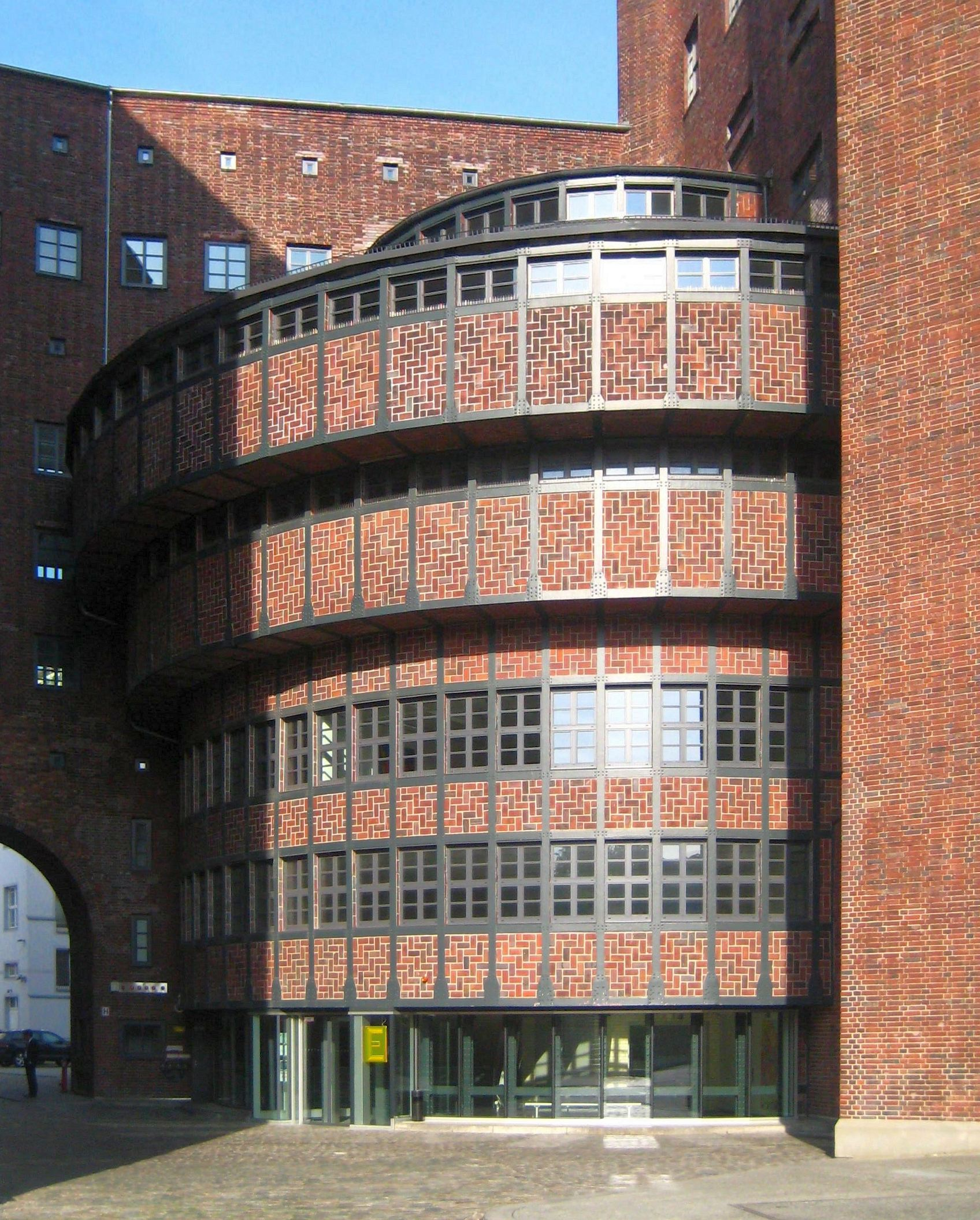 The control room building of the former "Substation Buchhändlerhof" between Mauerstraße and Wilhelmstraße in Berlin-Mitte. This part of the complex war built during reconstruction from 1926 to 1928 to a design by architect Hans Müller. Müller, who built several power stations in Berlin at that time, often used brick stones for a design, which shows the influence of architectural Epressionism.